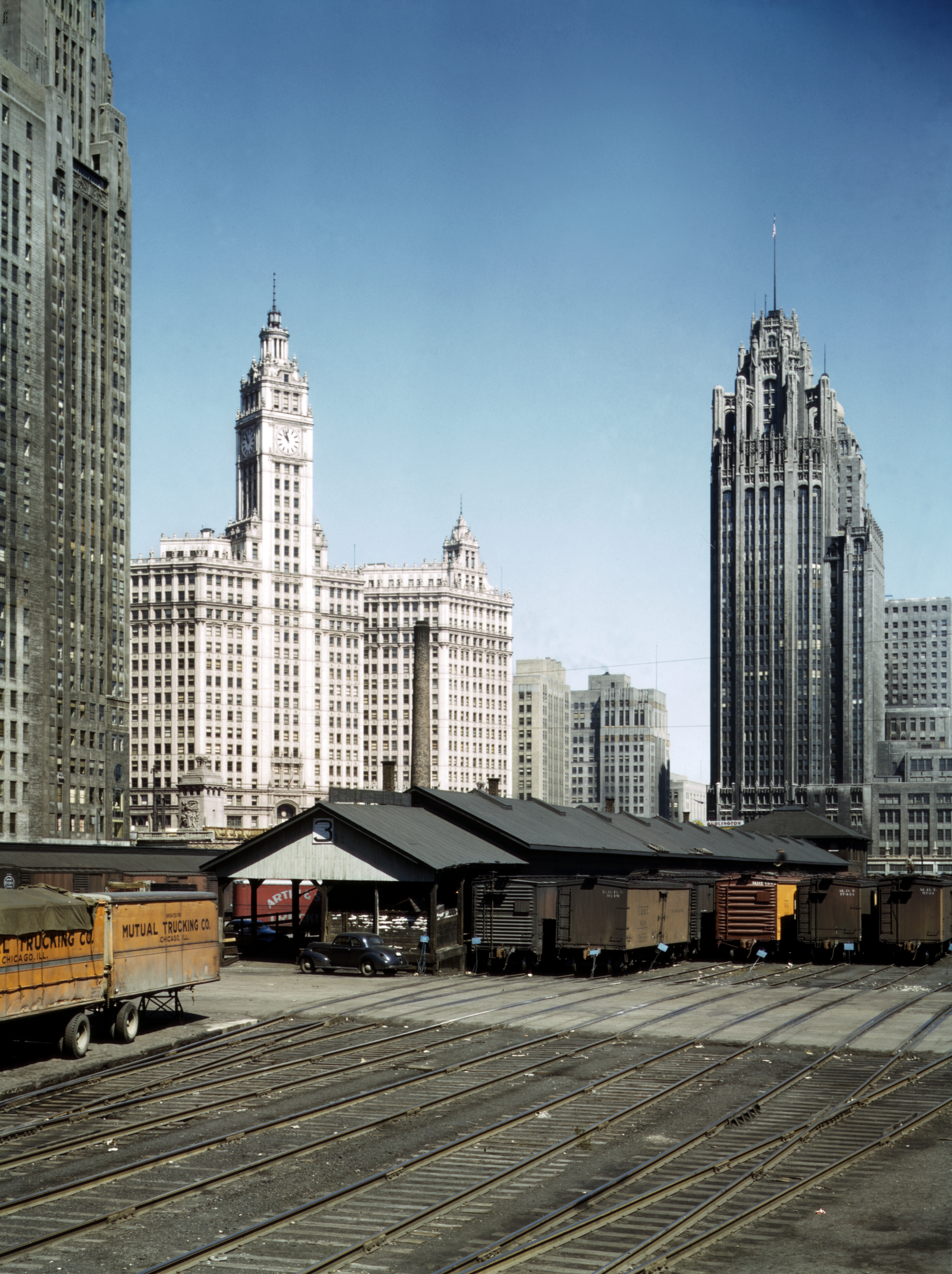 General view of part of the South Water Street Illinois Central Railroad freight terminal, Chicago, Ill.